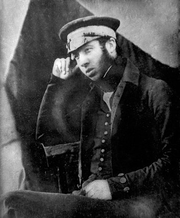 A daguerreotype of Doctor Harry Goodsir of the Royal Navy, taken by Richard Beard at his temporary dockside studio in Greenhithe, England, shortly before the Northwest Passage expedition's departure on 19 May 1845.